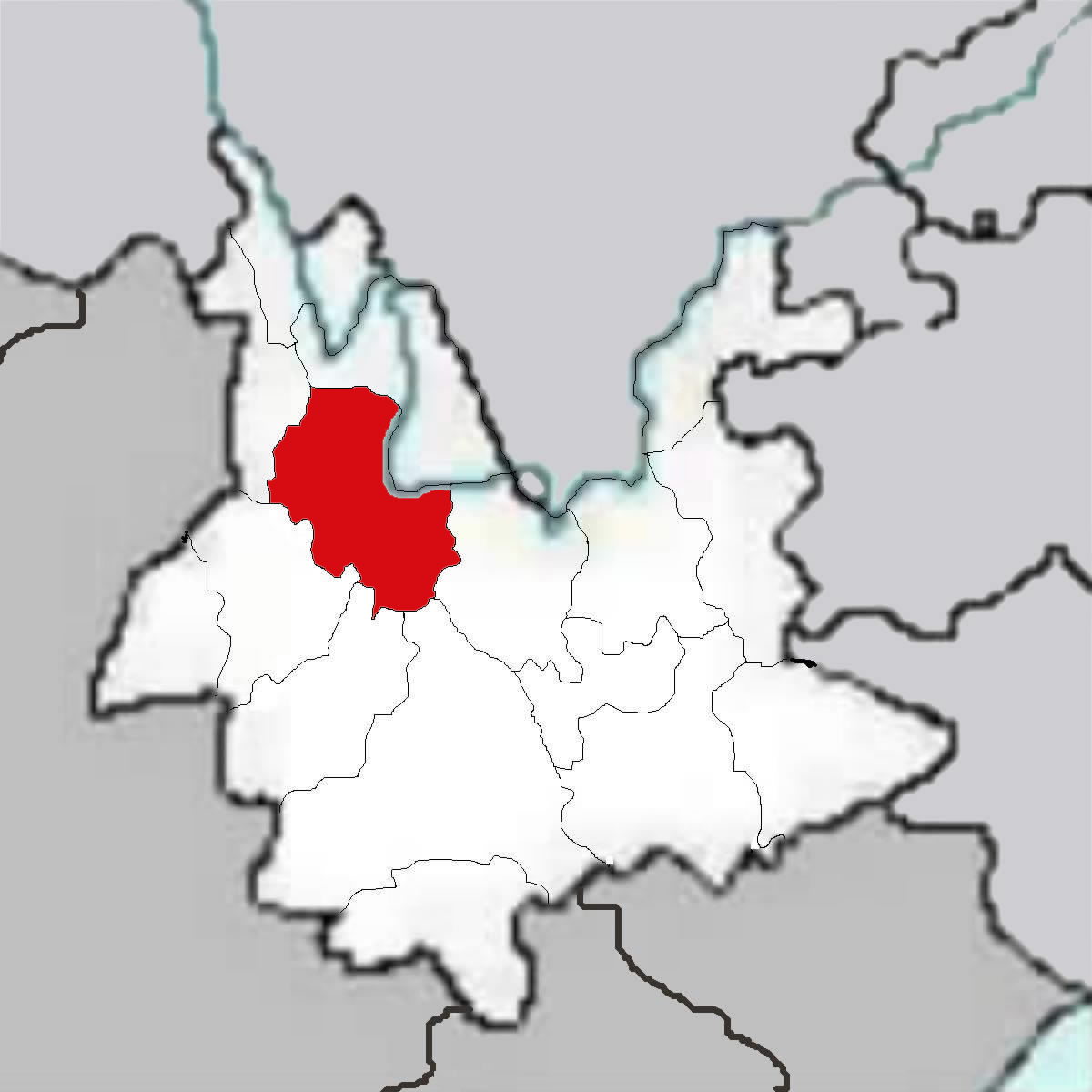 Yunan(云南) Province of China